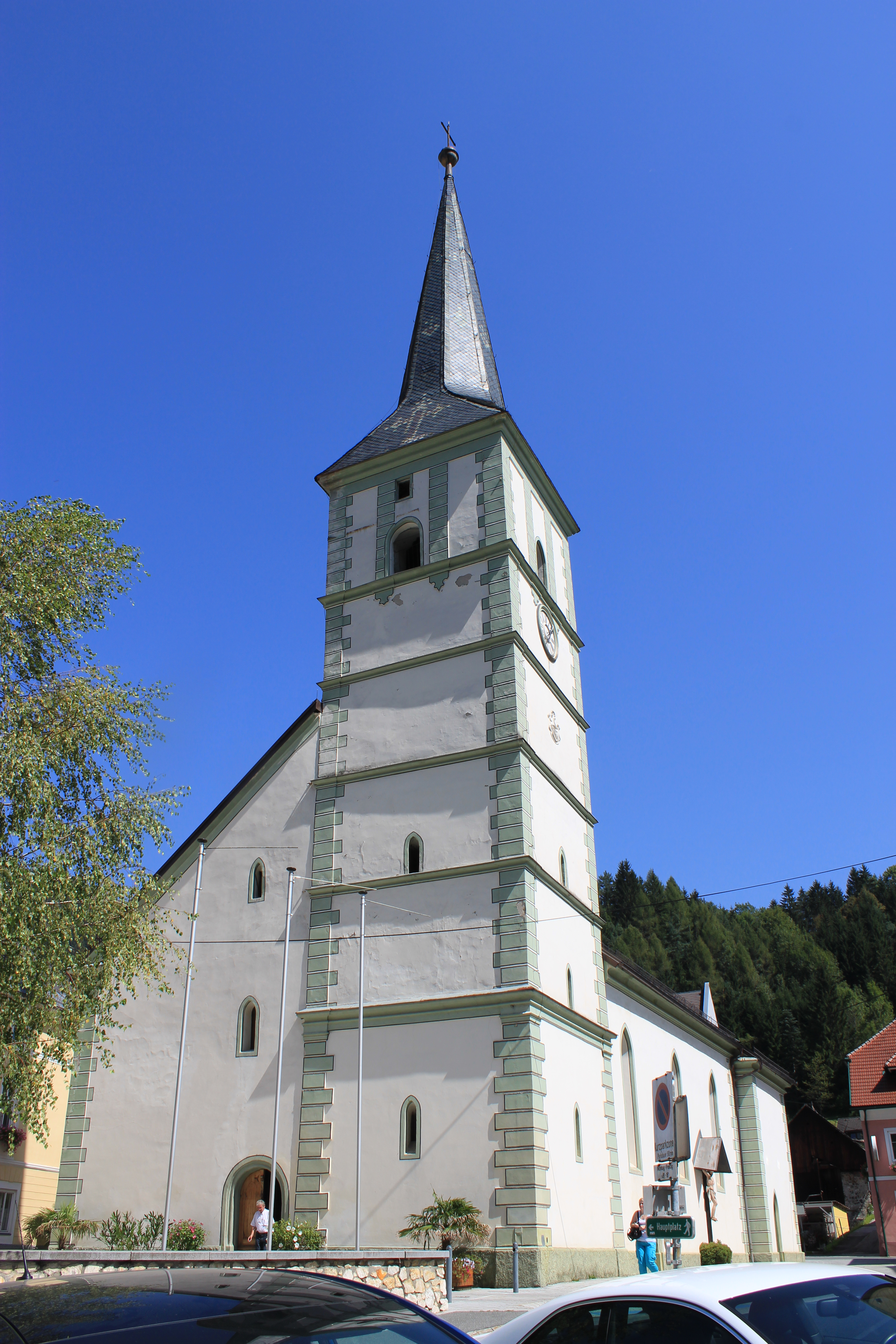 Parish church in Eisenkappel-Vellach